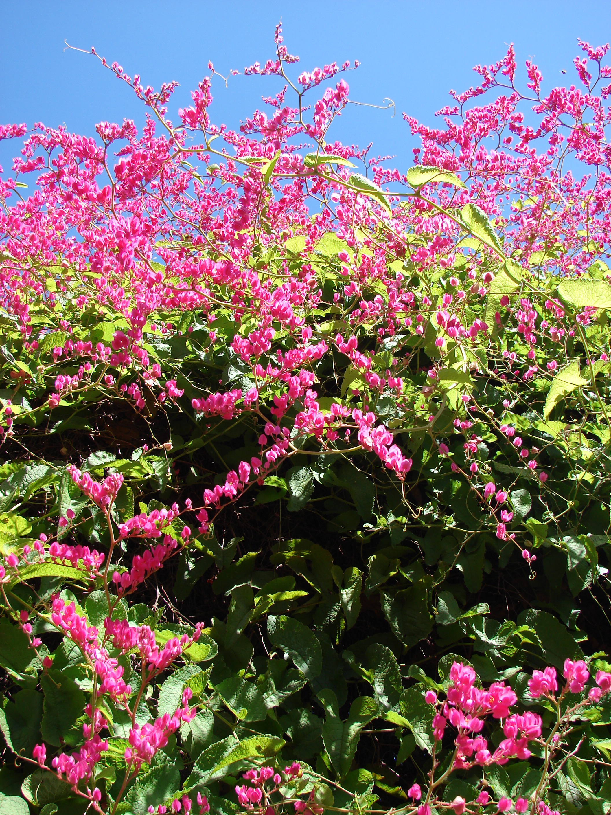 Antigonon leptopus (flowering habit). Location: Maui, Enchanting Floral Gardens of Kula